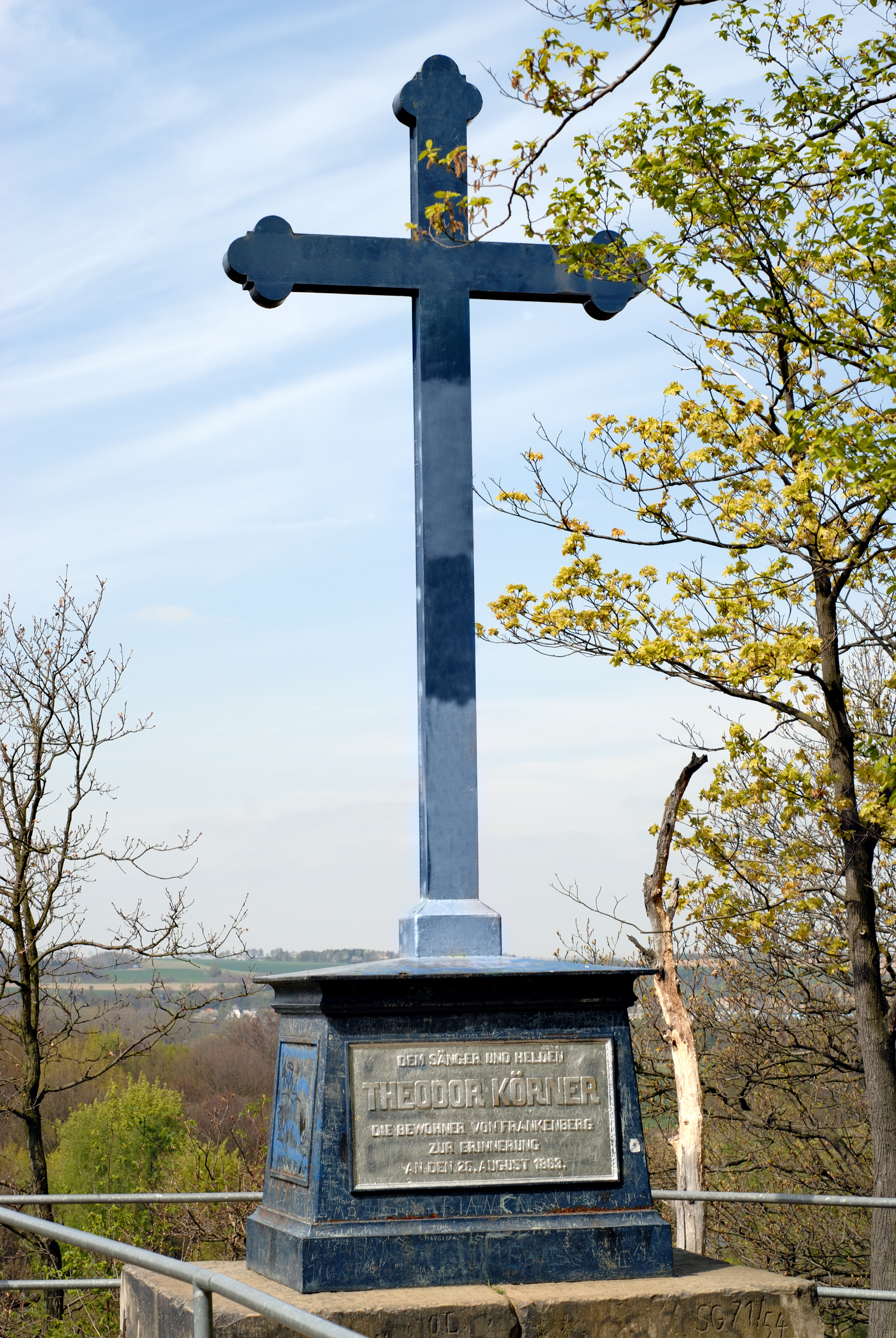 This image shows the Körnerkreuz ("Körner cross") at the Harrasfelsen ("Harras rock") near Braunsdorf (Niederwiesa), Germany.